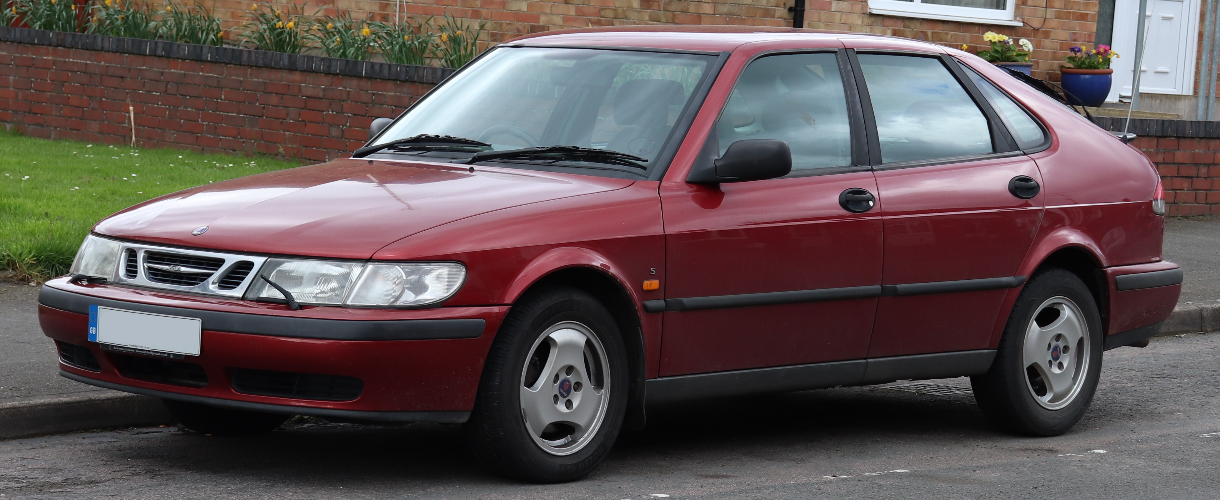 1999 Saab 9-3 S 2.0 Front Taken in Warwick